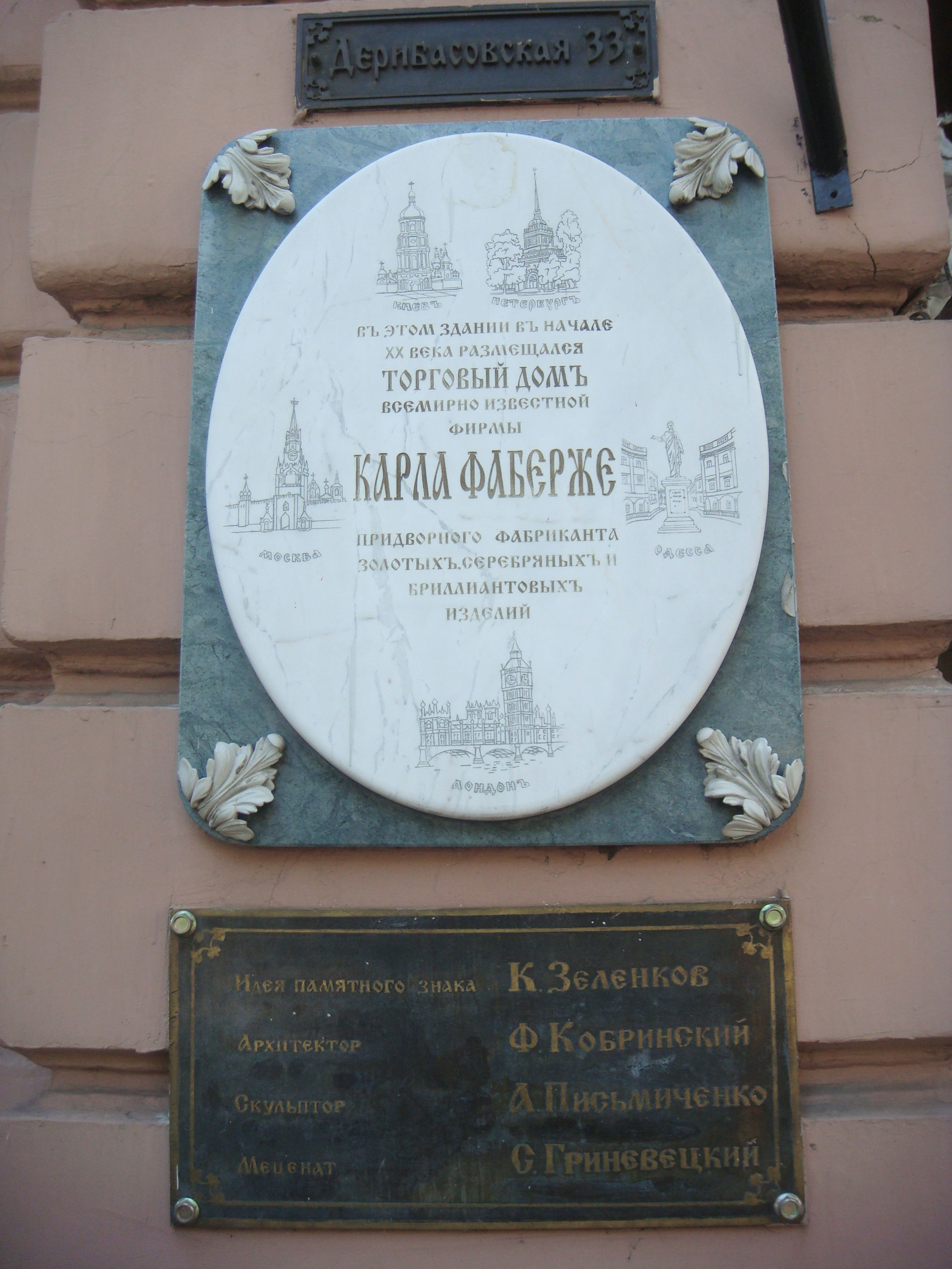 Memorial plate in Odessa dedicated to Peter Carl Faberge